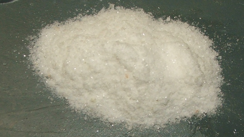 Ascorbic acid